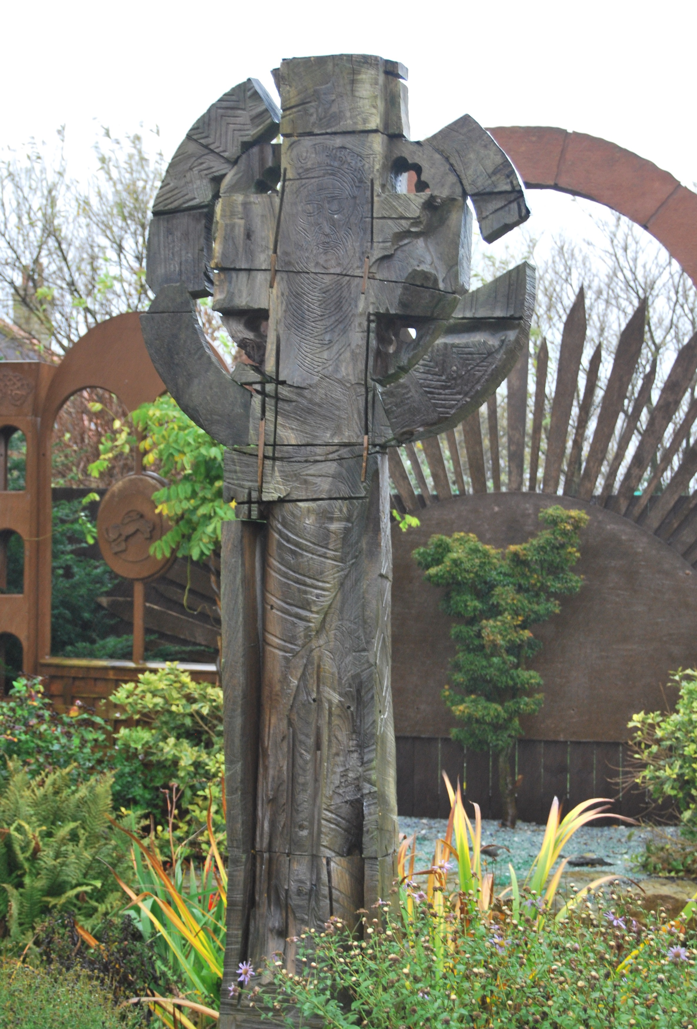 Celtic Cross on Lindisfarne